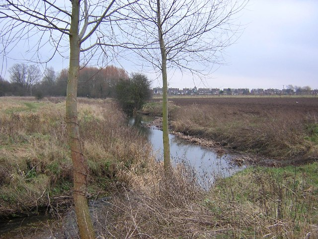 Where rivers meet... The point where the River Wid (coming in from the right) joins the River Can. From here the Can runs through Chelmsford town and joins the River Chelmer.